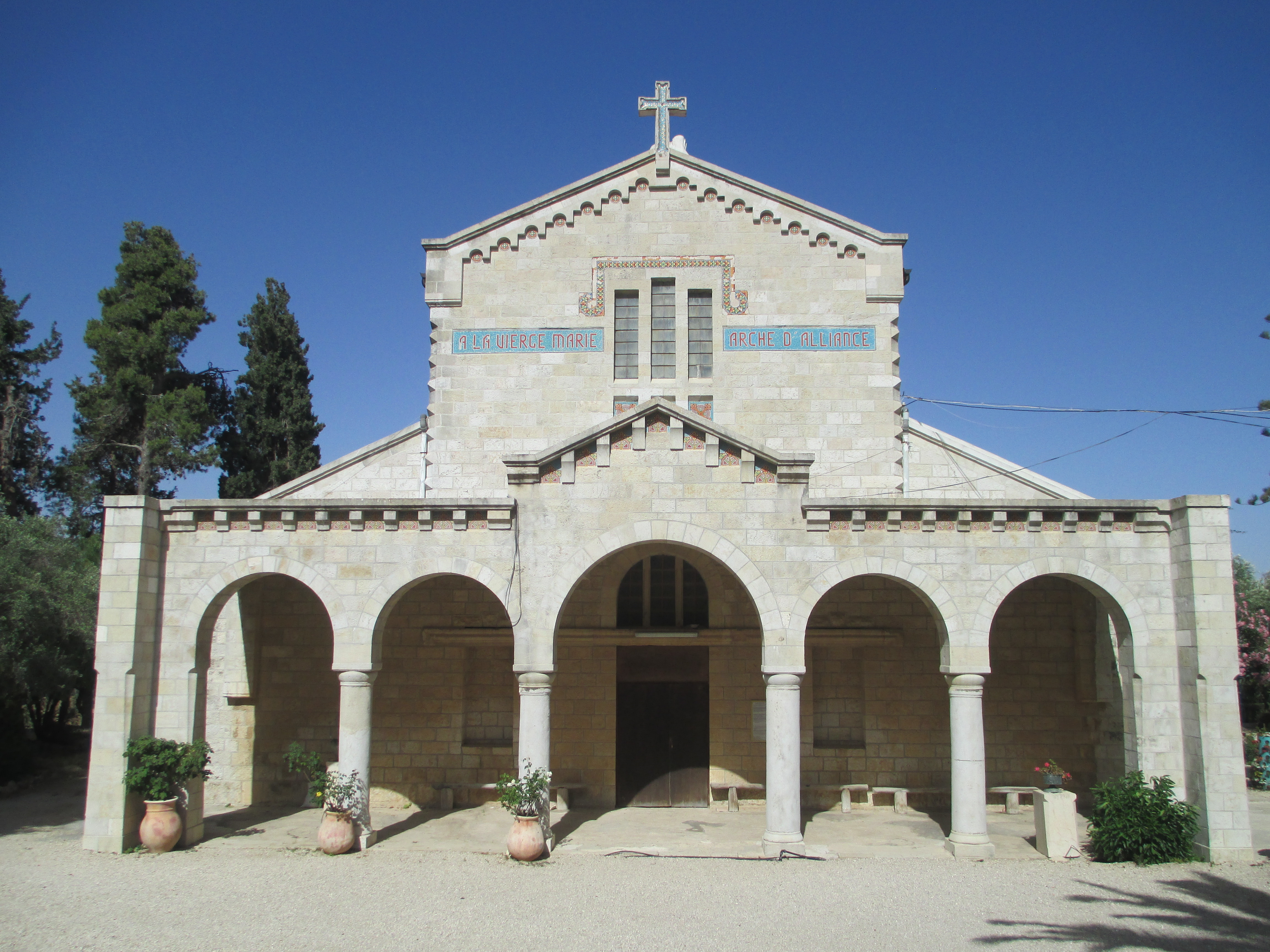 Lady of the ark church in Abu Gosh